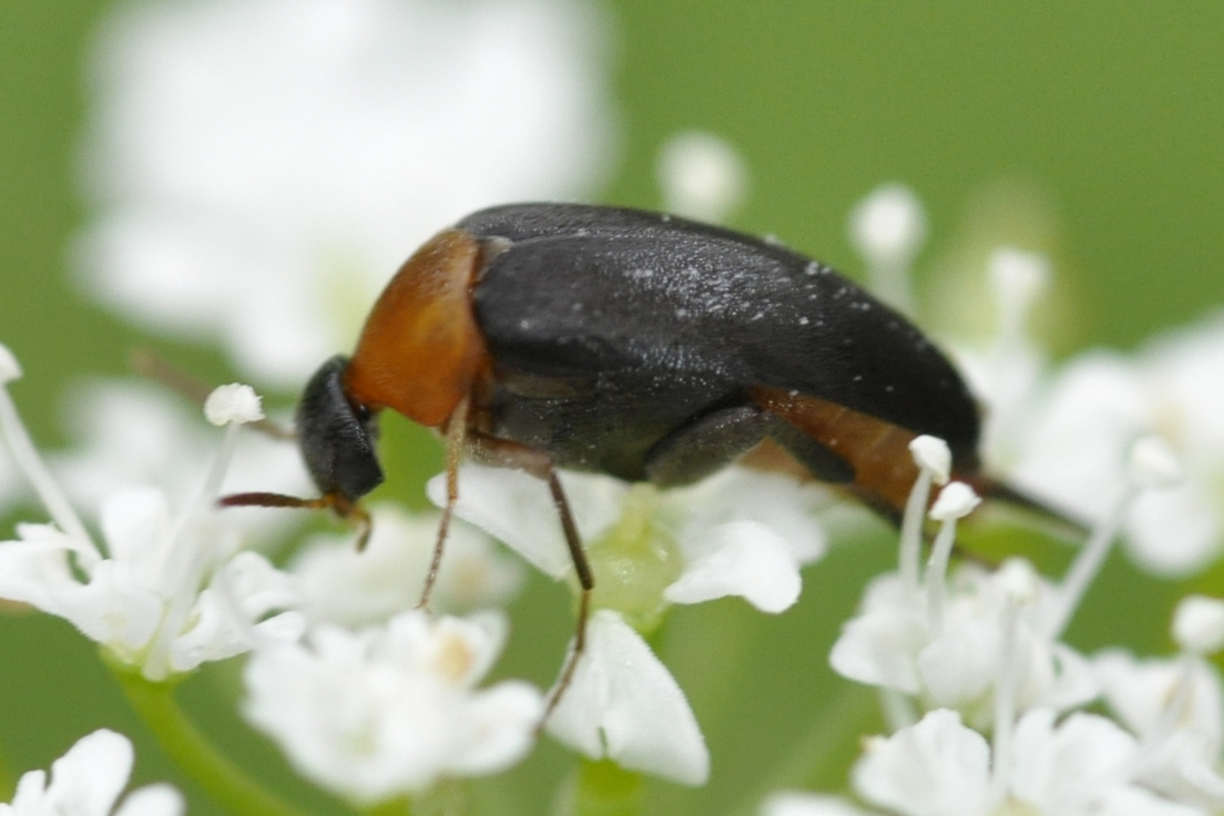 Mordellochroa abdominalis (Fabricius, 1775). Germany: Hessen, Kreis Kassel, Tierpark Sababurg near Trendelburg.